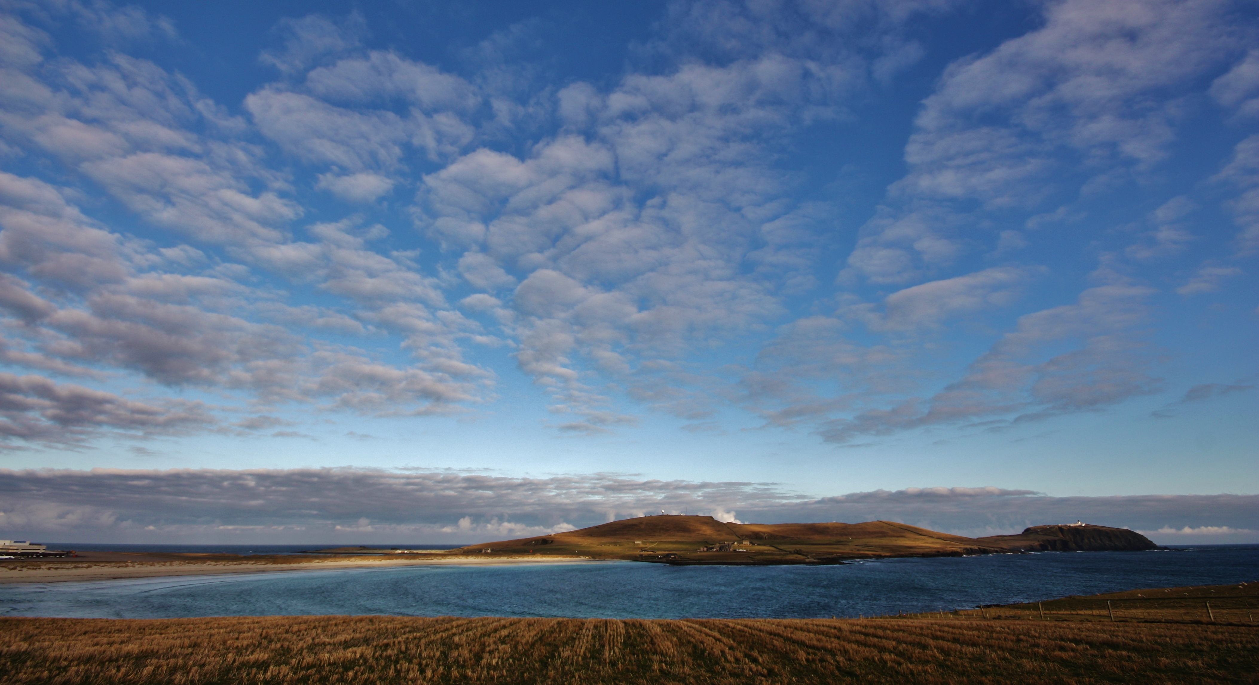 West Voe of Sumburgh on a day with ever changing skies.